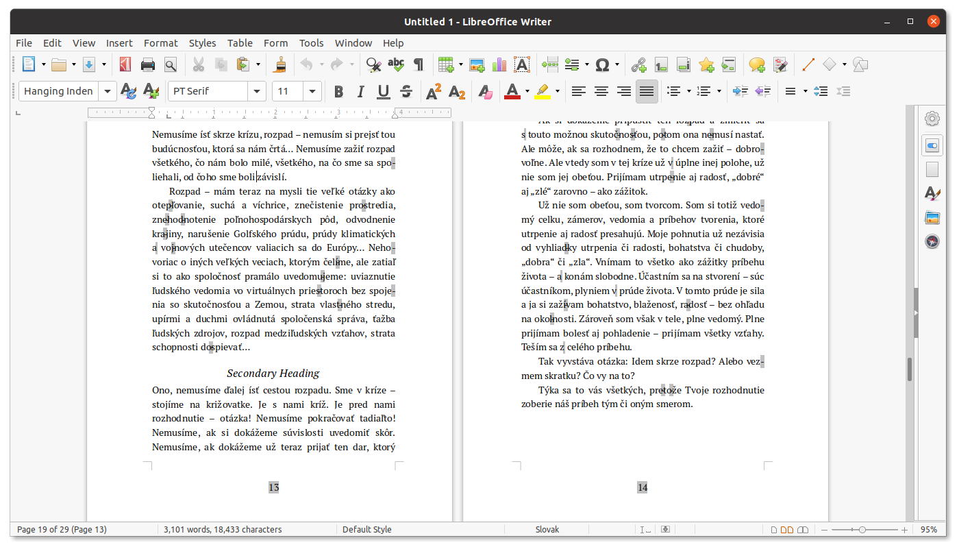 Screenshots of LibreOffice Writer 6.4 running on Ubuntu 20.04.